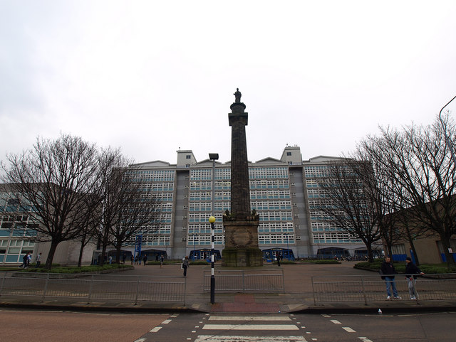 Wilberforce's Statute and Hull Technology College